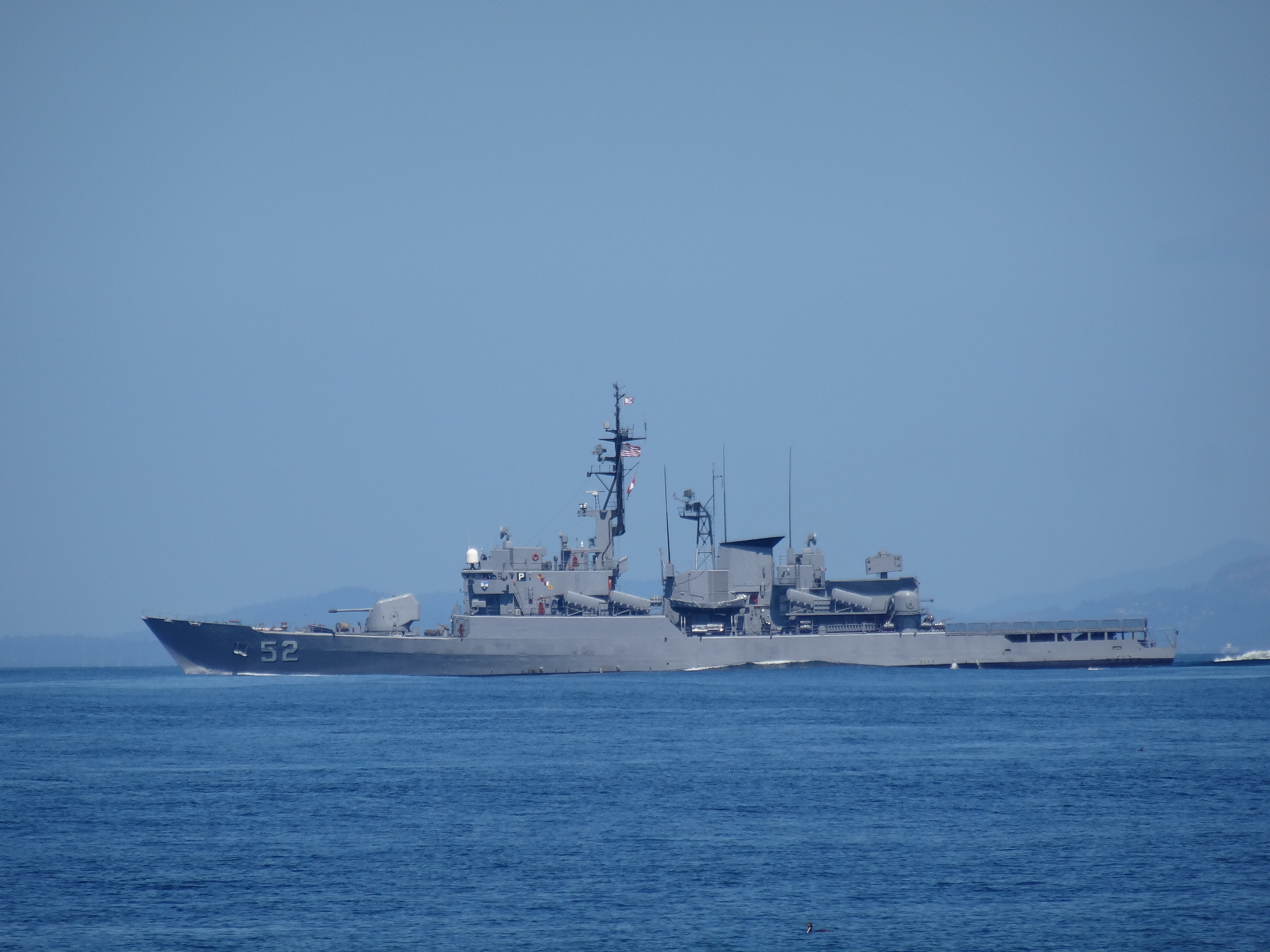 BAP Villavicencio FM-52 Underway off Dungeness Spit in Washington State, USA June 2015